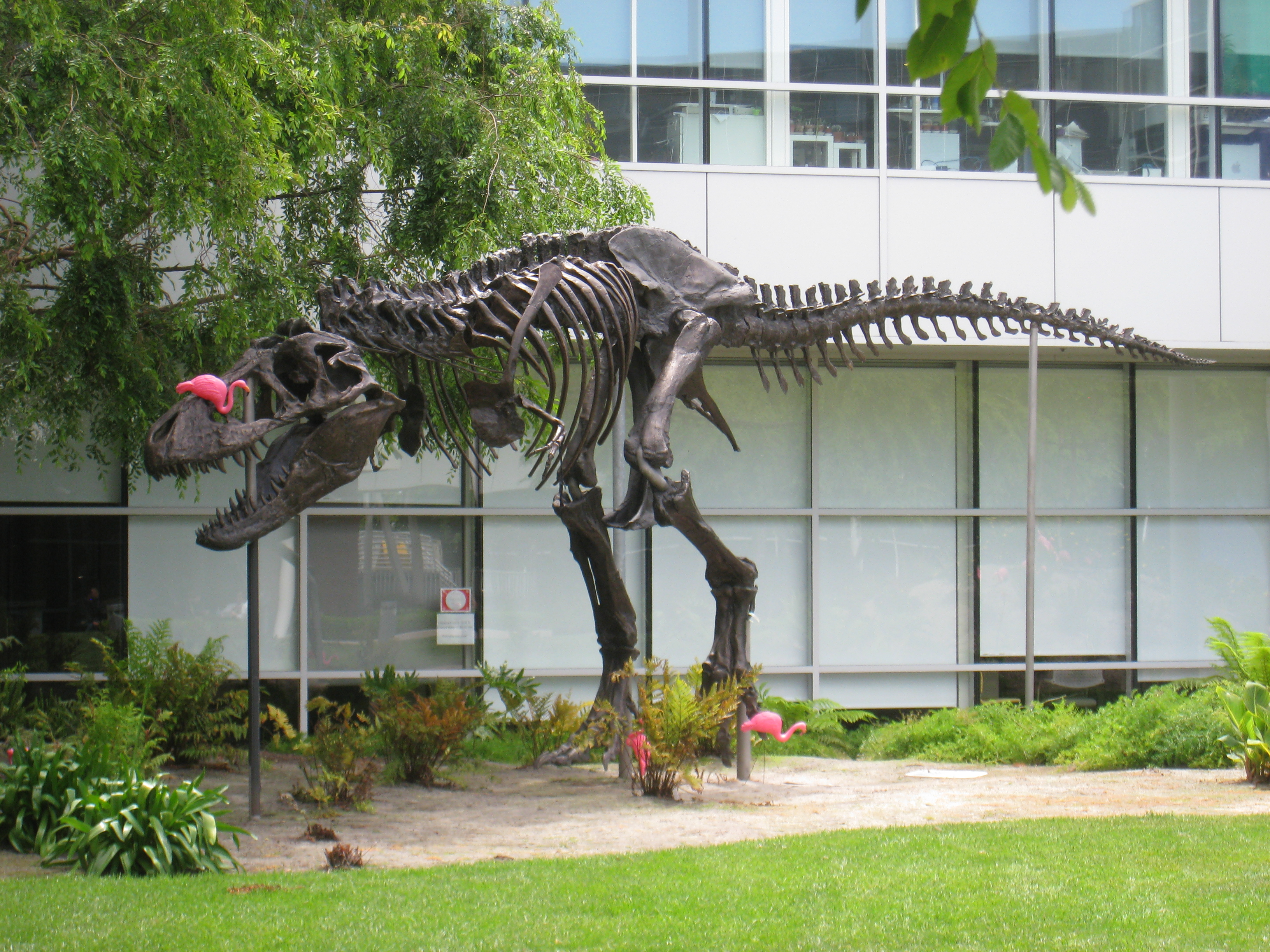 Playful critters at the Googleplex.